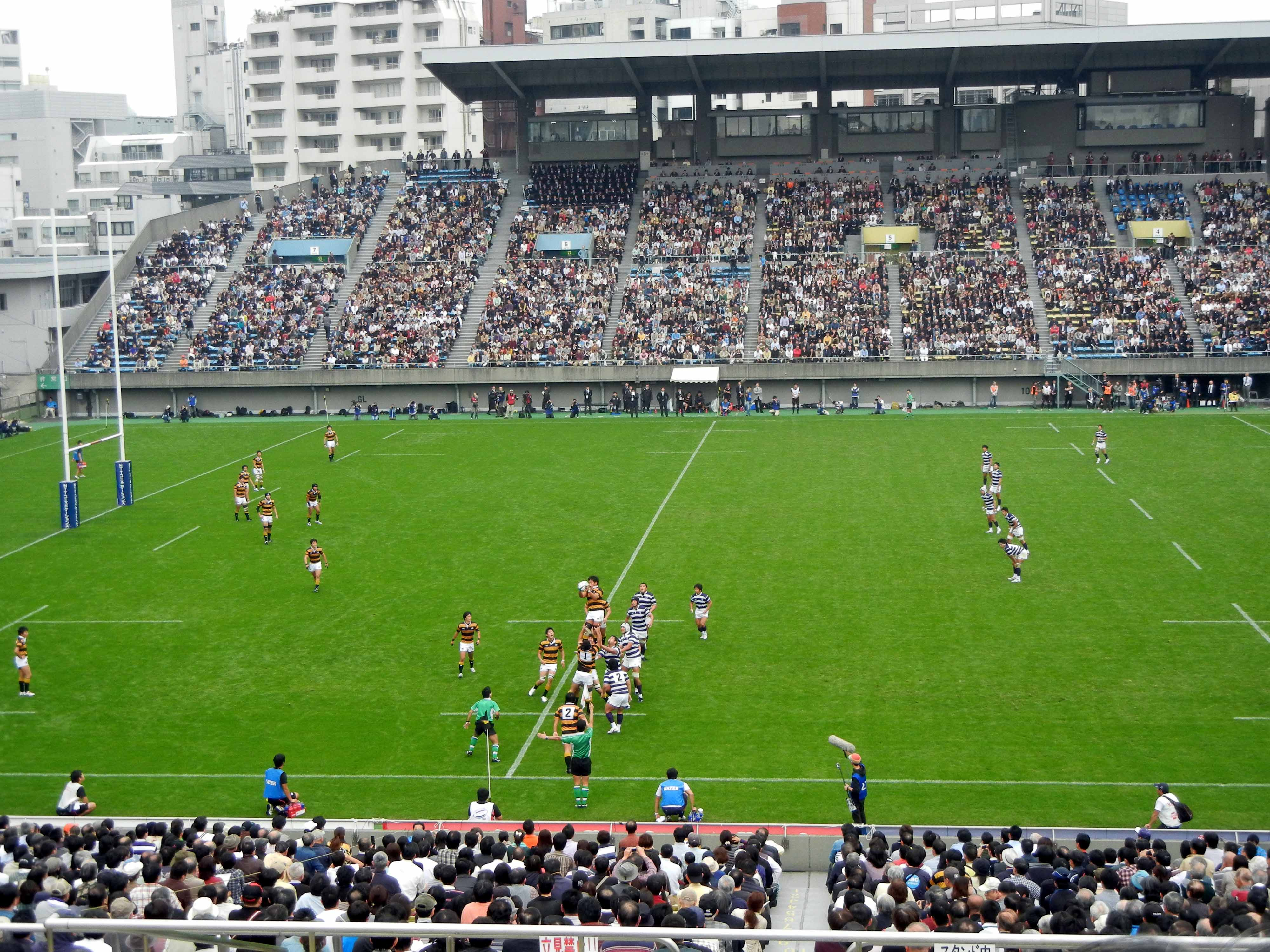 Keio University vs Meiji University (keimeisen）